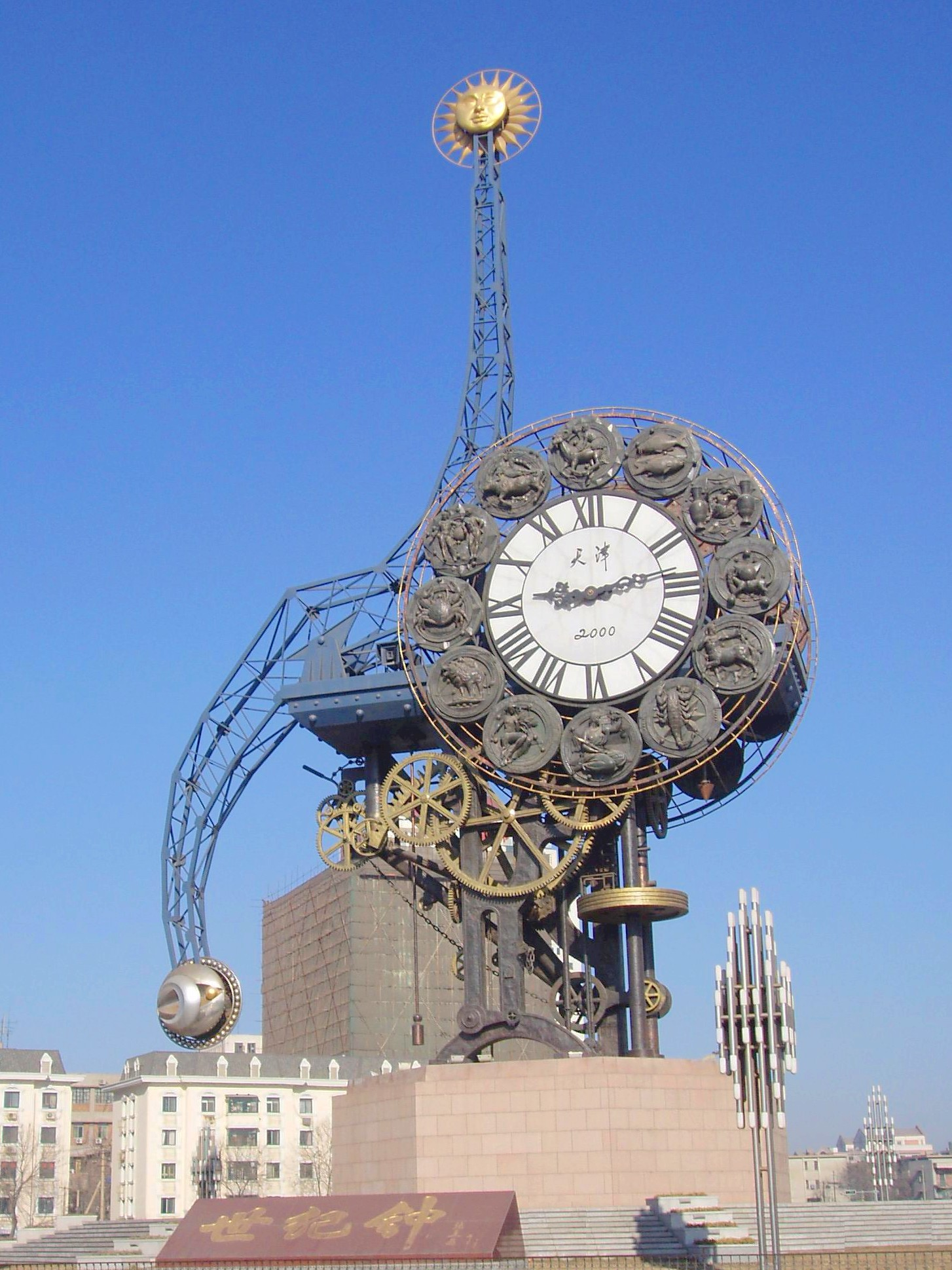 Tianjin East Railway Station